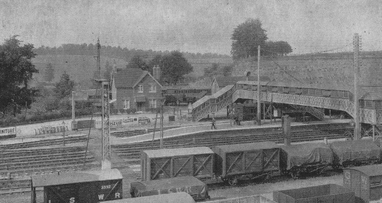 a view of Yeovil Junction railway station in 1907.